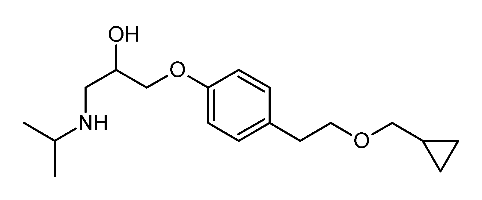 Chemical structure of betaxolol. Created by myself using ISISDraw 2.5